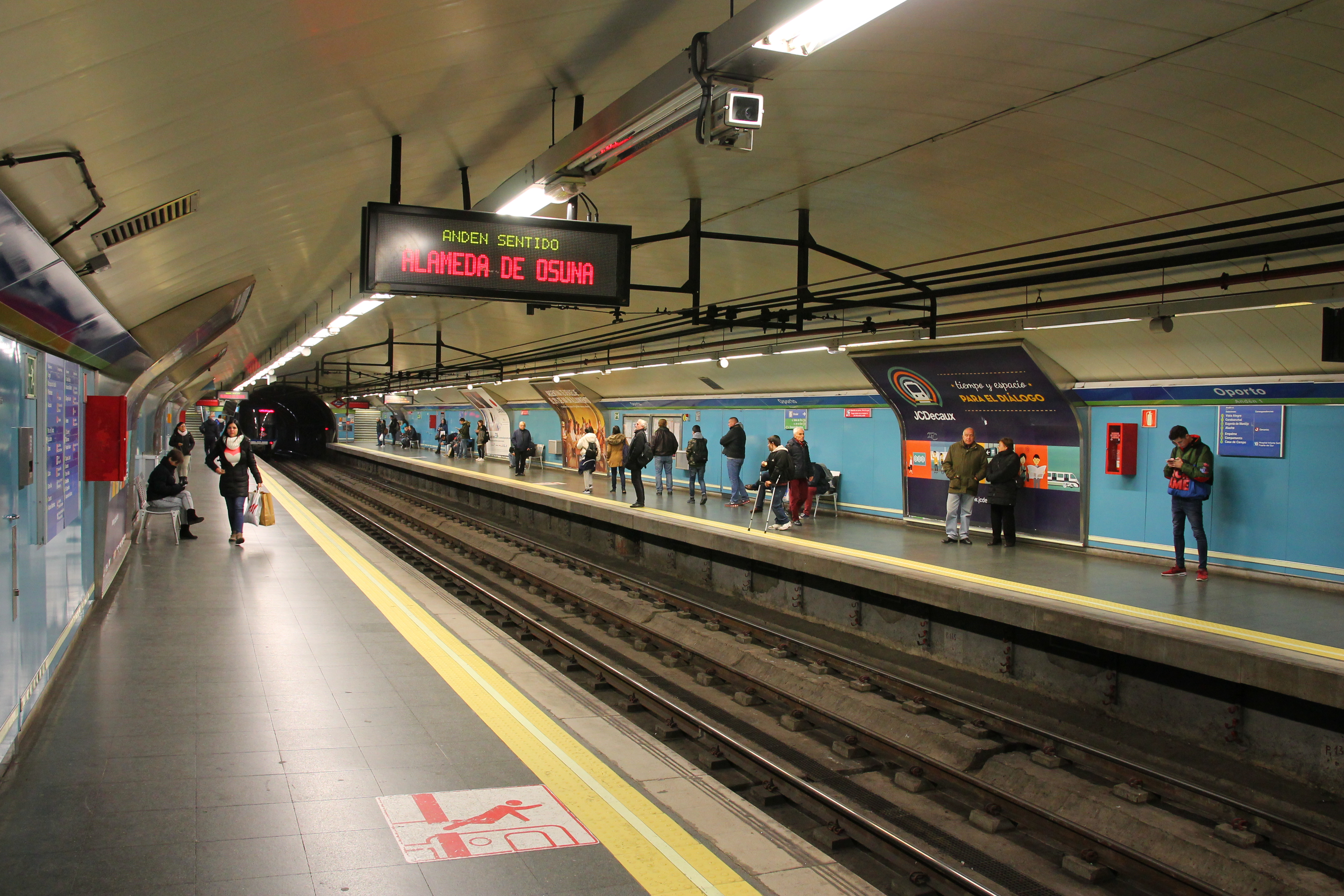 Estación de Oporto